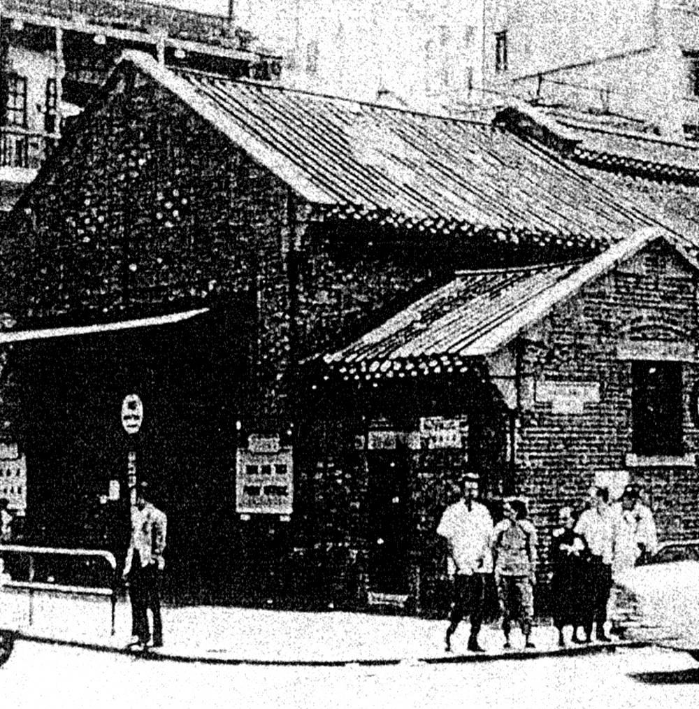 The old Yau Ma Tei Post Office as it appeared in the early 1960s. The post office was converted from the Engine House and Boiler House of the original pumping station. (Source: Water Supplies Department / Antiquities and Monuments Office)